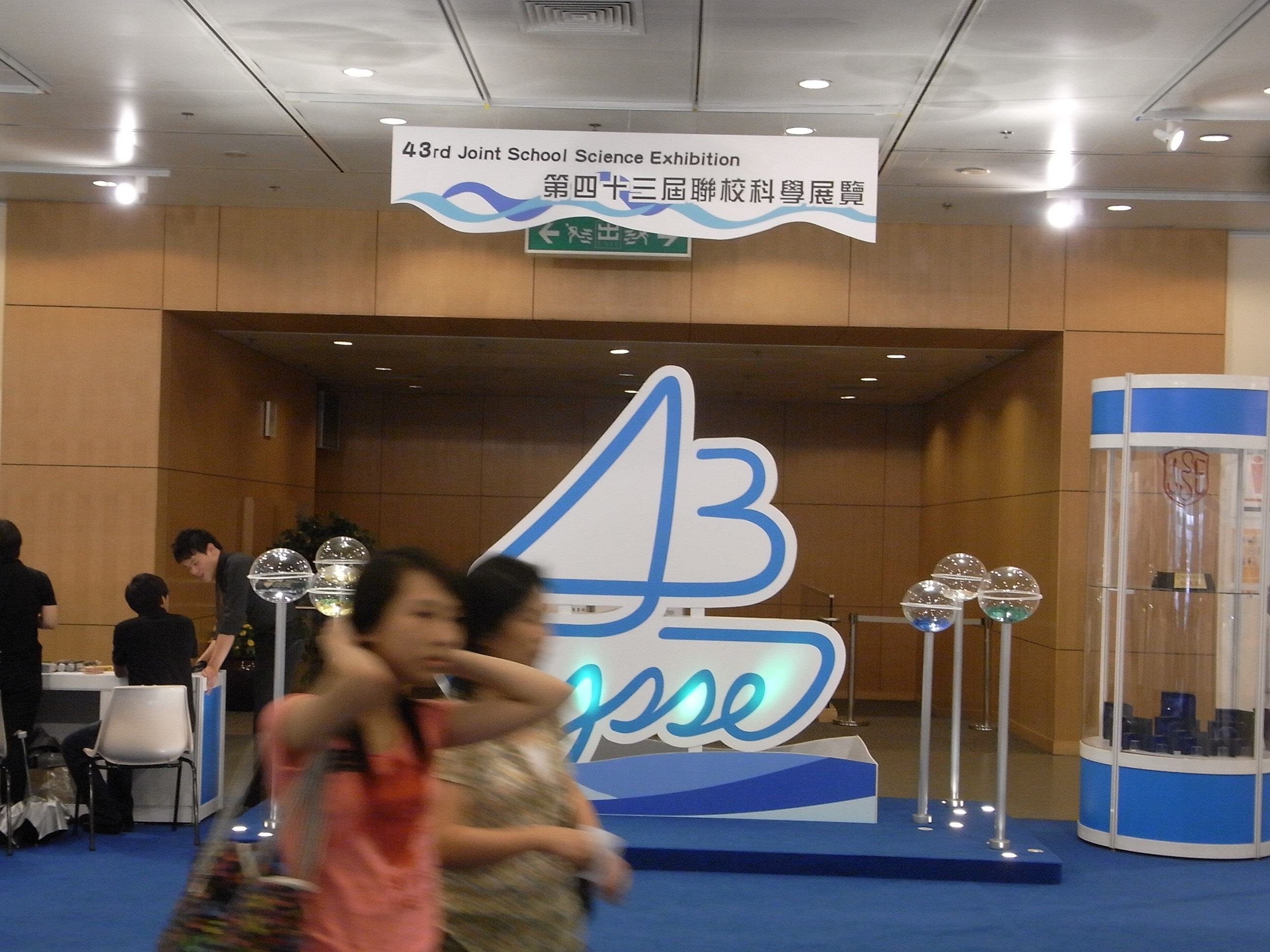 zh:2010年8月 第43屆聯校科學展覽 於香港中央圖書館